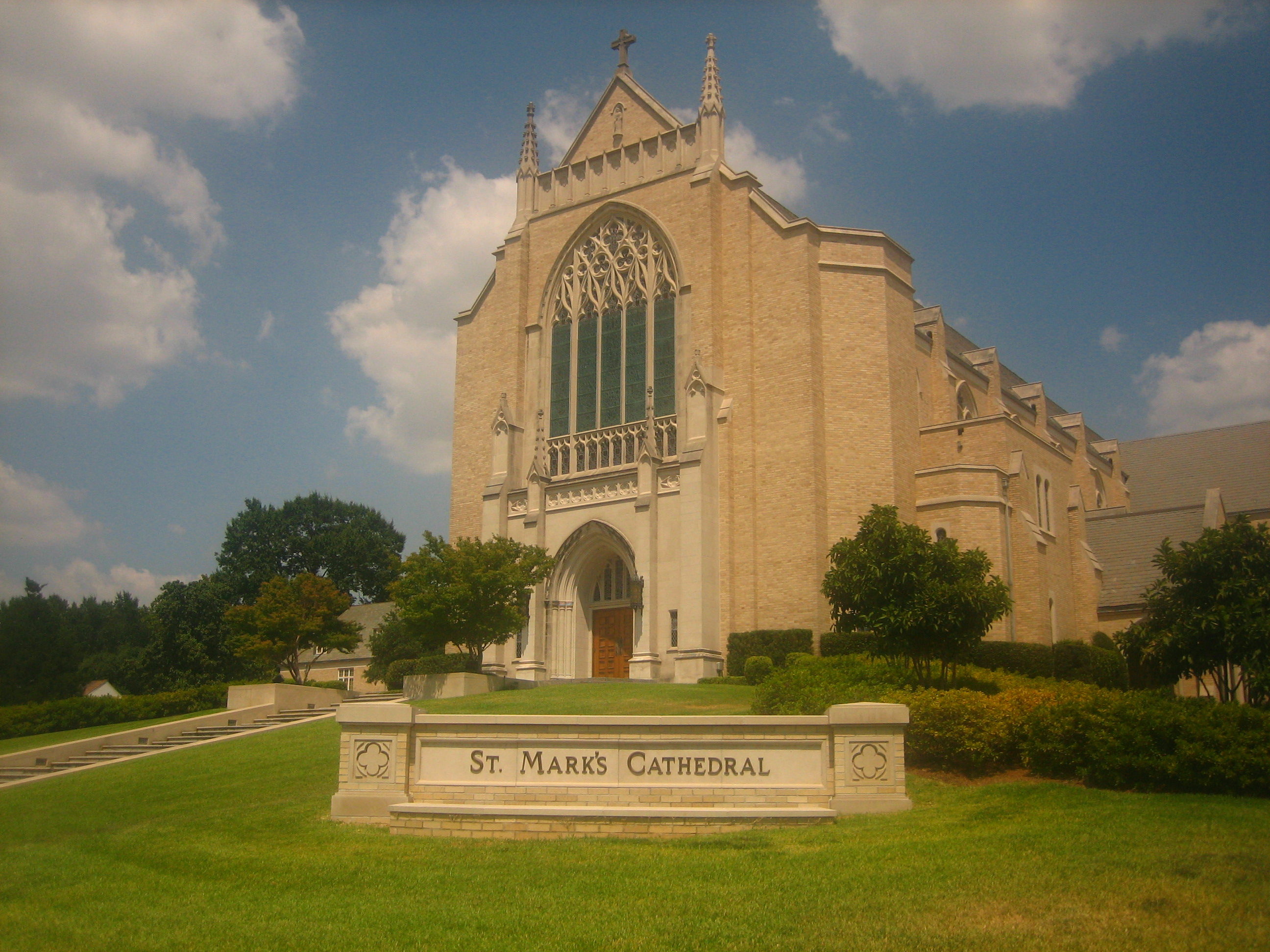 I took photo on Aug. 4, 2008.Billy Hathorn (talk) 17:20, 20 August 2008 (UTC)